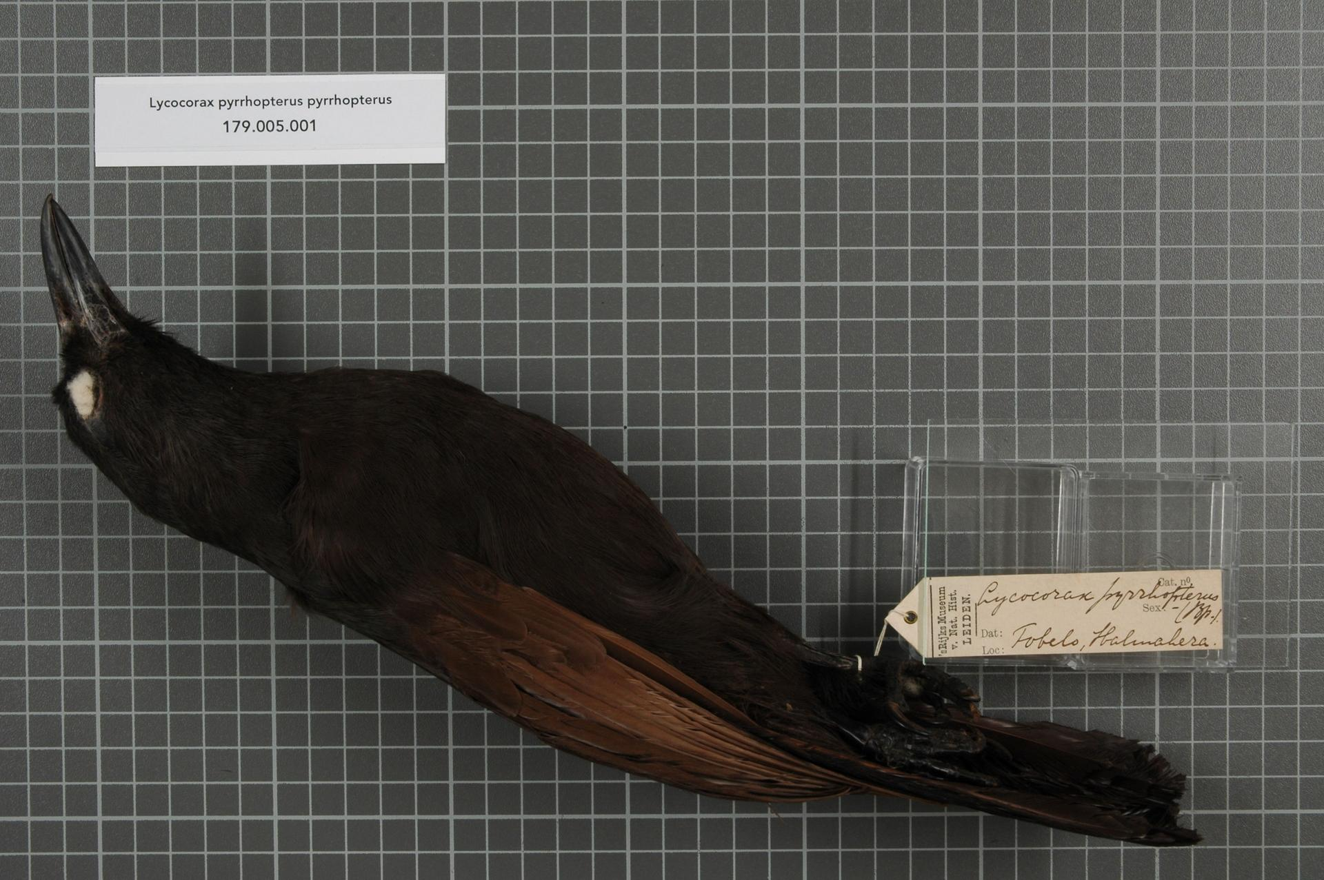 Lycocorax pyrrhopterus pyrrhopterus (Bonaparte, 1851)